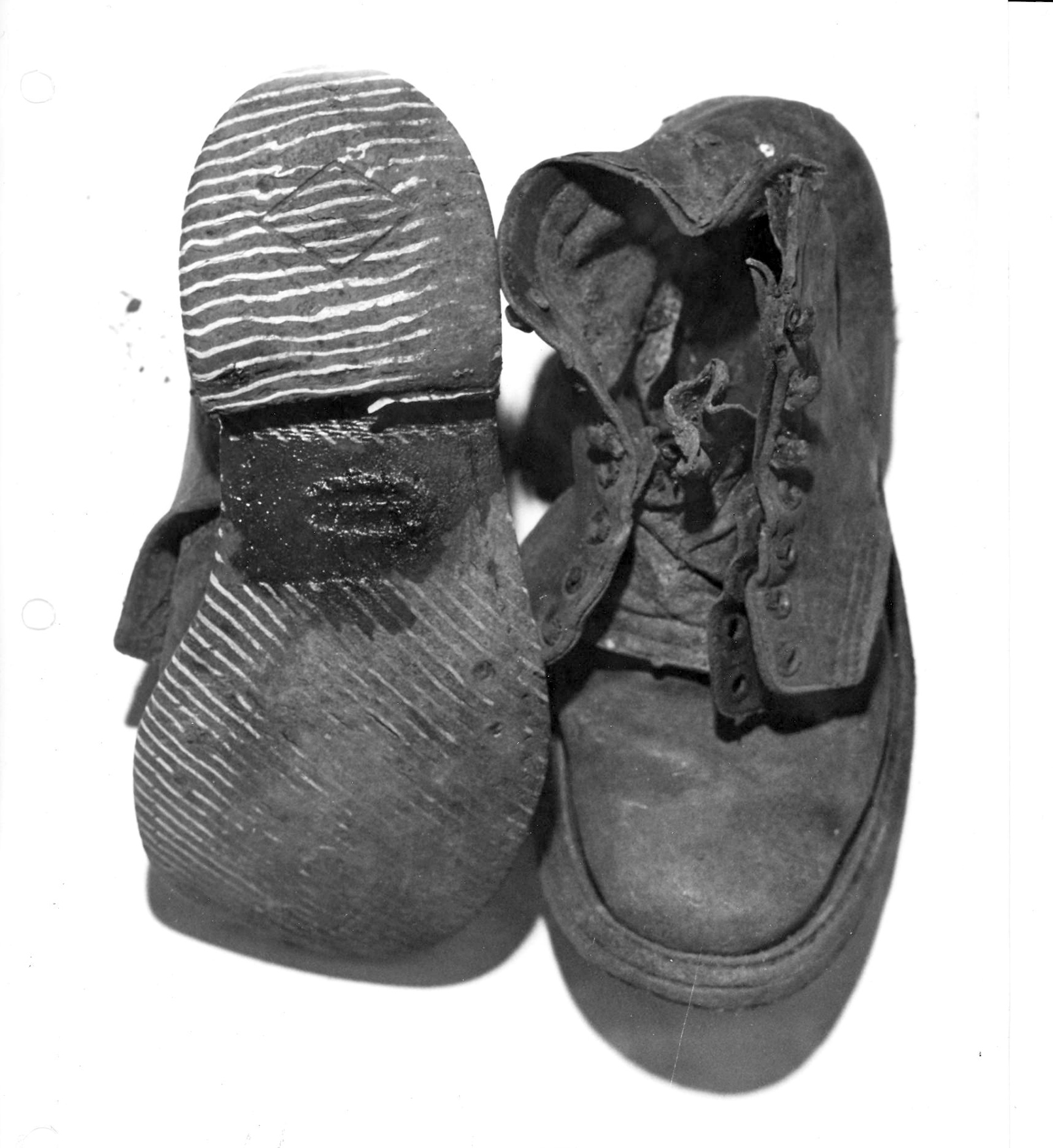 Shoes found with an unidentified murder victim from California